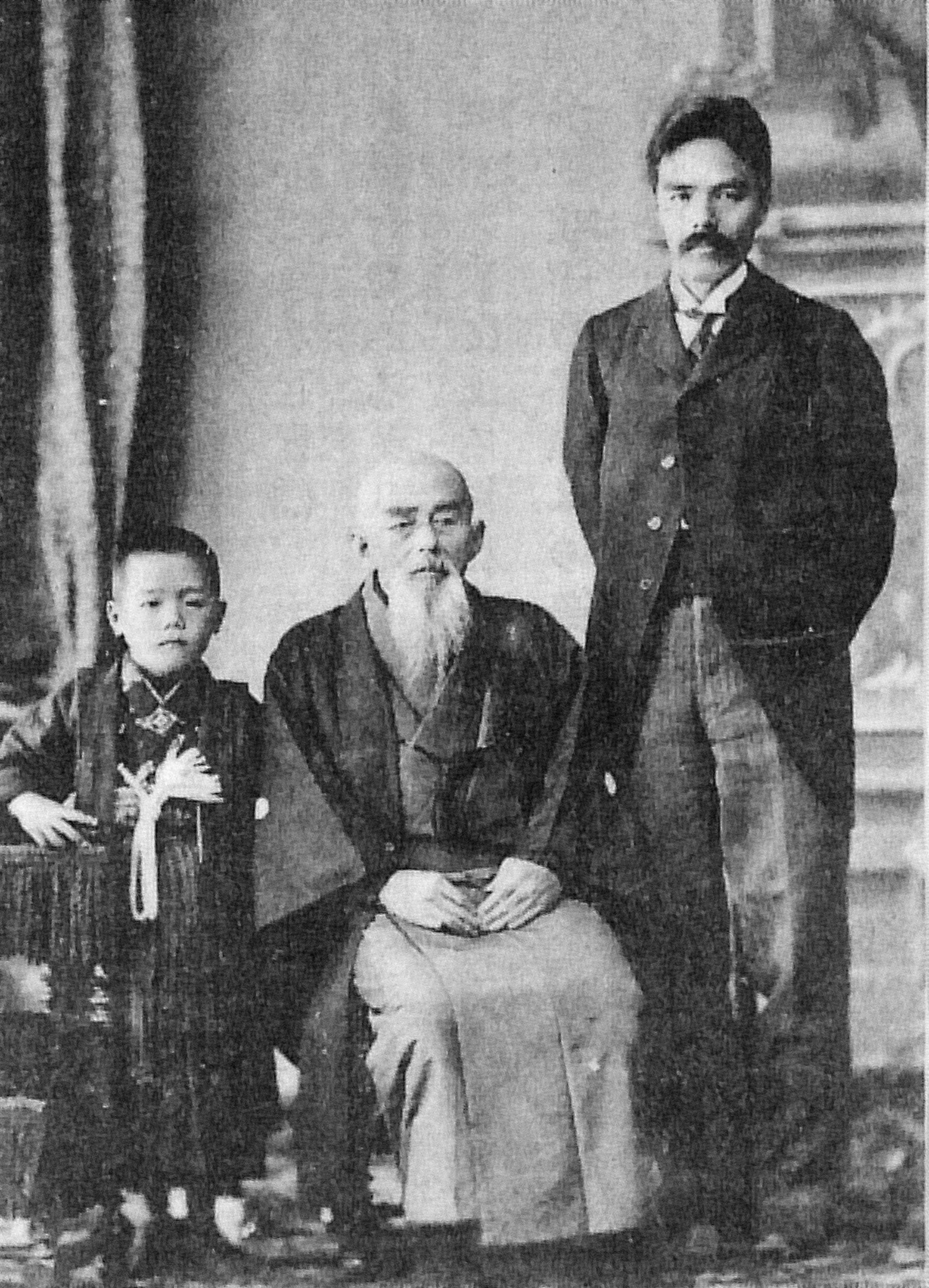 Japanese Christian Author Kanzo Uchimura with his father Nobuyuki and his son Yushi